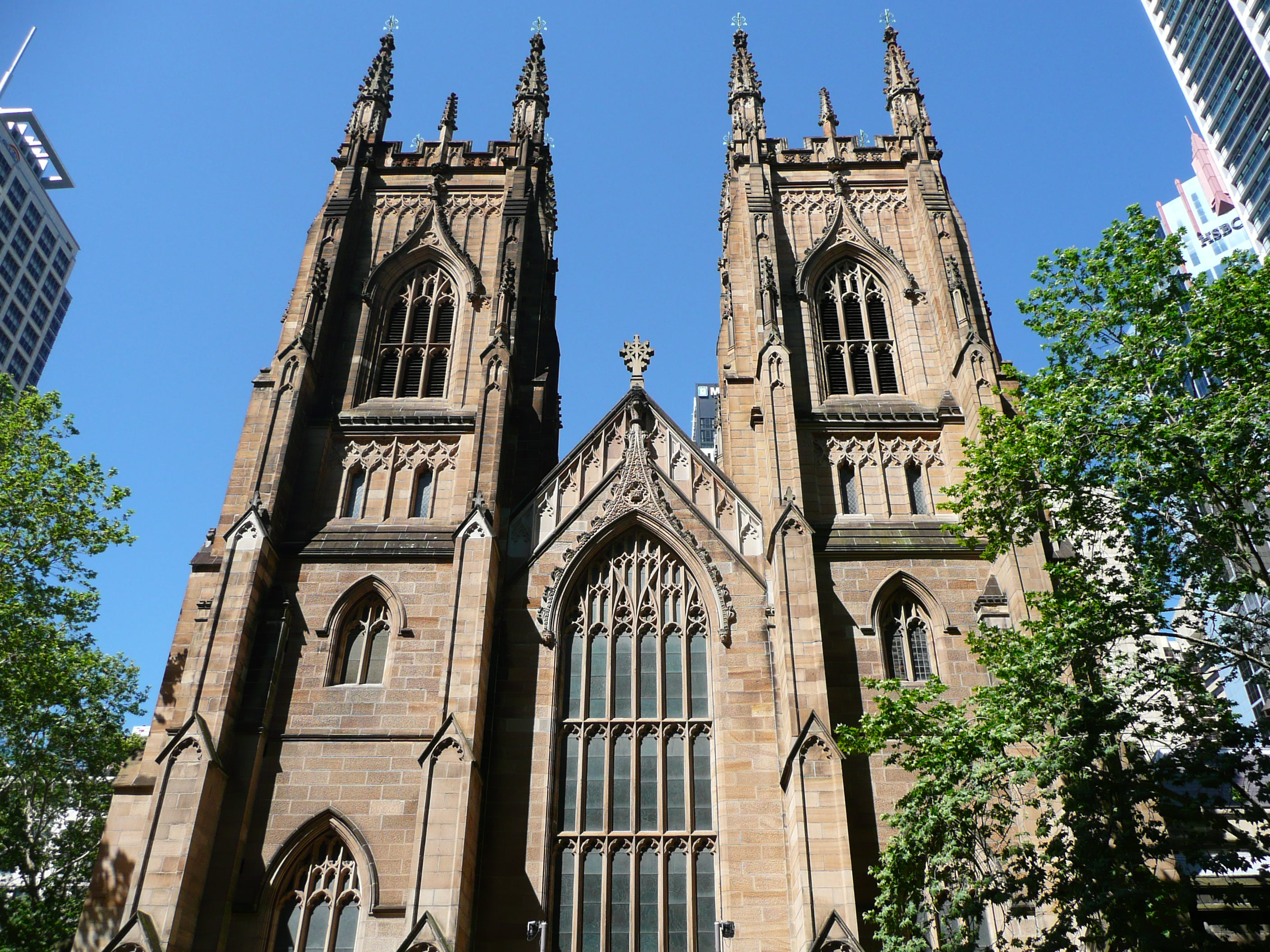 St Andrews Cathedral, Sydney